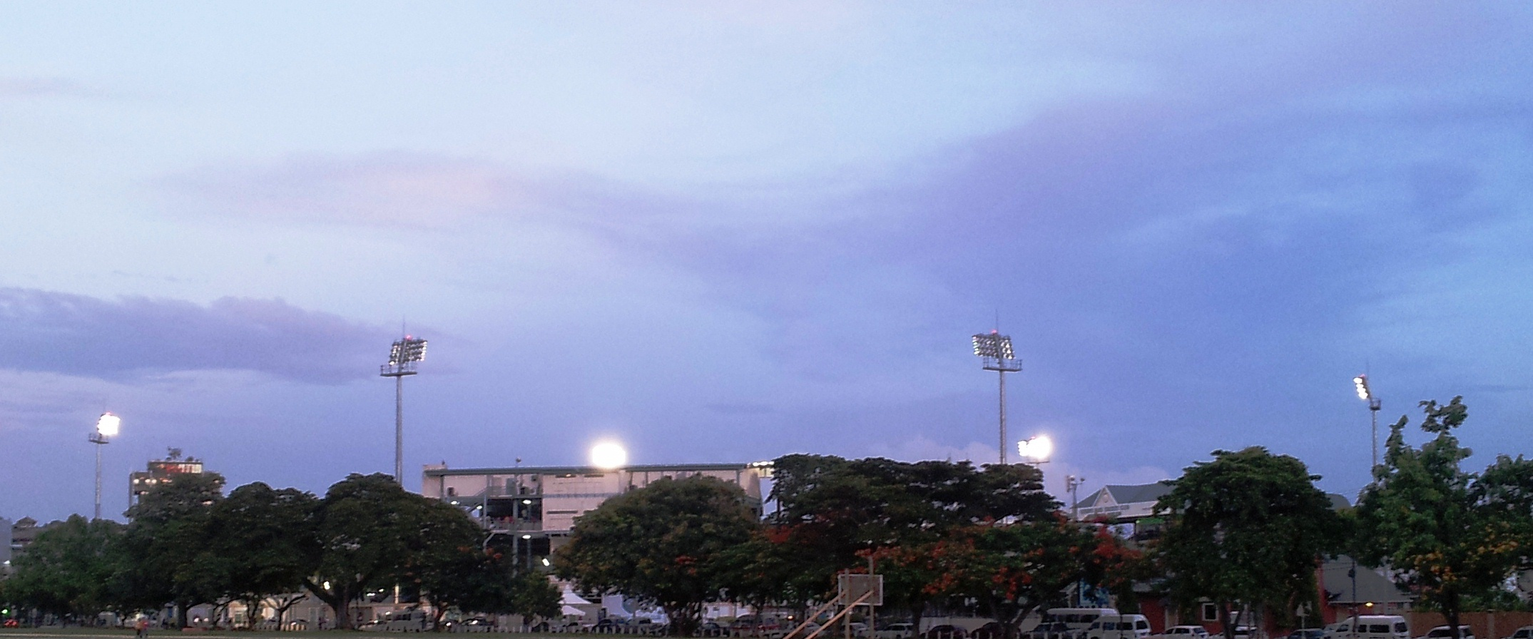 QPO during the CPL Edition 1 - Flood lights turned on